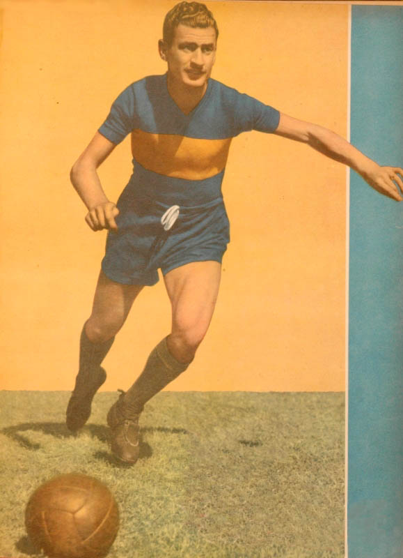 Argentine football forward, Mario Boyé, while playing for Boca Juniors.